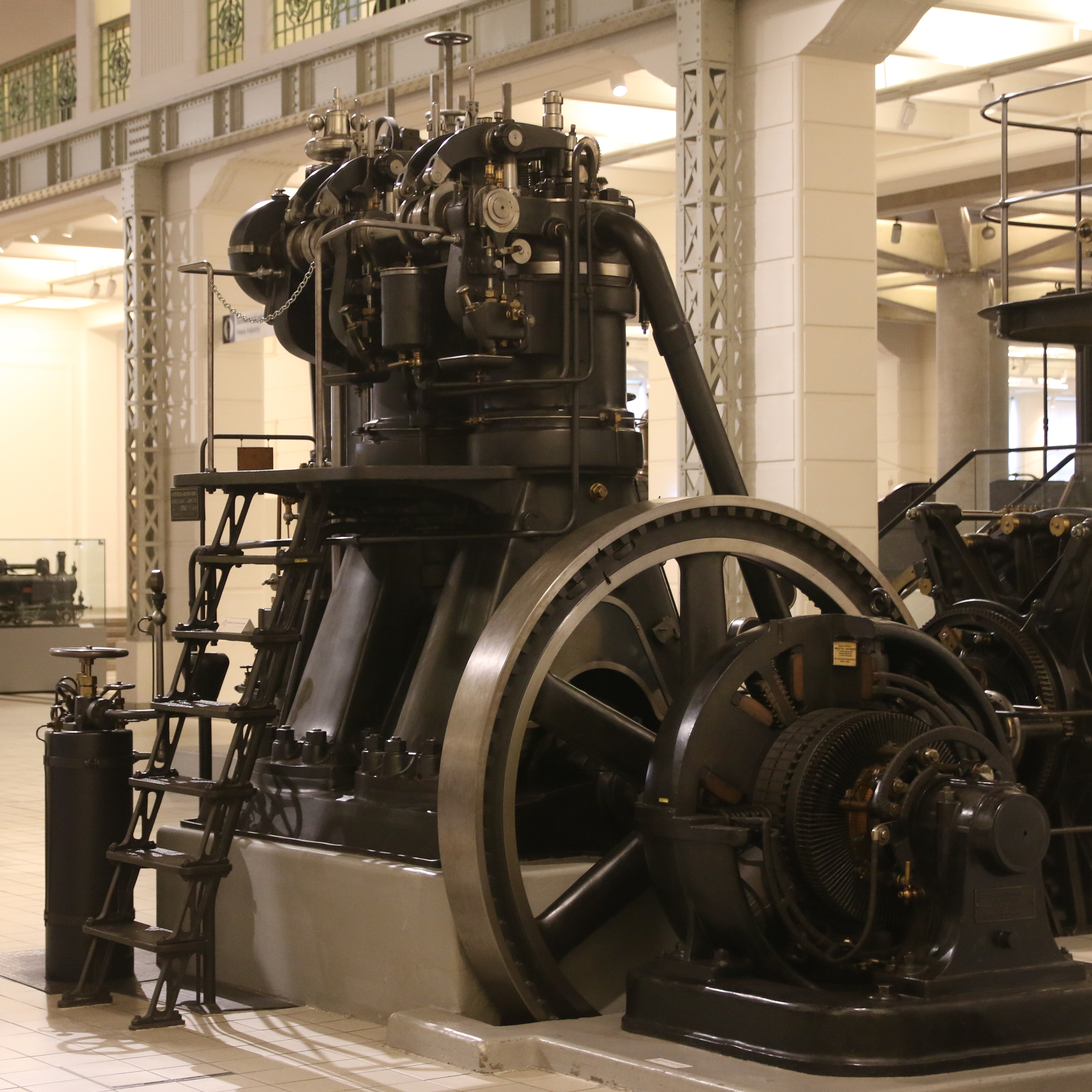 Stationary Diesel engine "Wärme-Motor Patent Diesel" built in 1915 by Grazer Waggon-&Maschinen-Fabriks-Aktiengesellschaft vorm. Joh.Weitzer GRAZ, № 561. Rated power 58.84 kW.